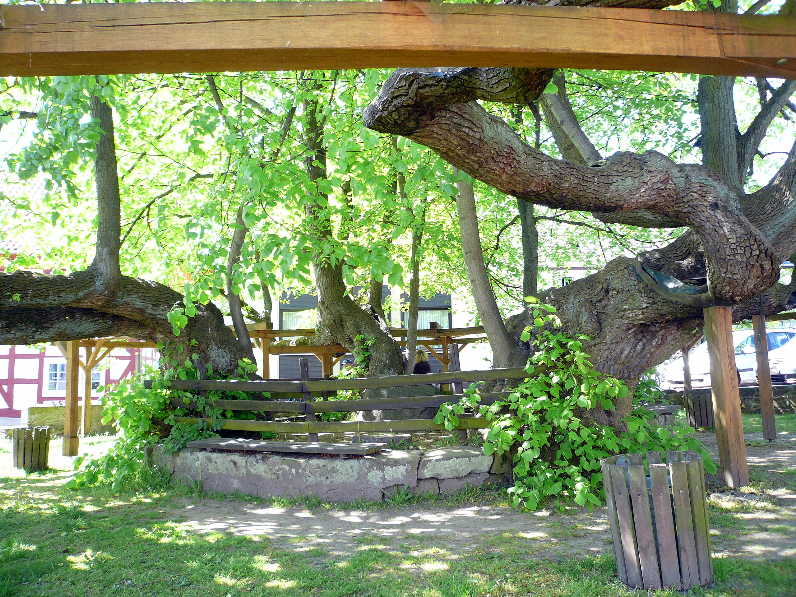 trunks of the lime tree in Schenklengsfeld, Germany